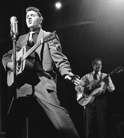 Elvis Presley live with Scotty Moore and Bill Black